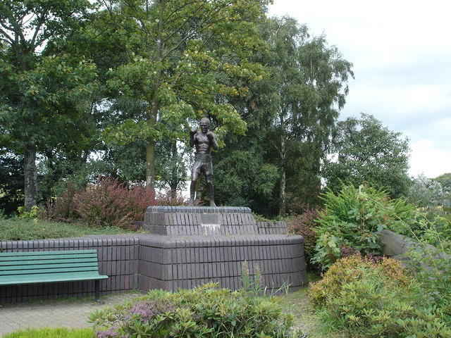 Boxers Memorial, Newmains Cross. To a local boxer James Murray who died in the ring in 1995. cf. The final stages for statue in boxer's memory. Herald Scotland (July 20, 1996). Retrieved on April 22, 2011.